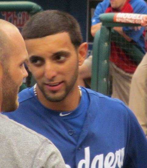 Alex Castellanos in Philadelphia.